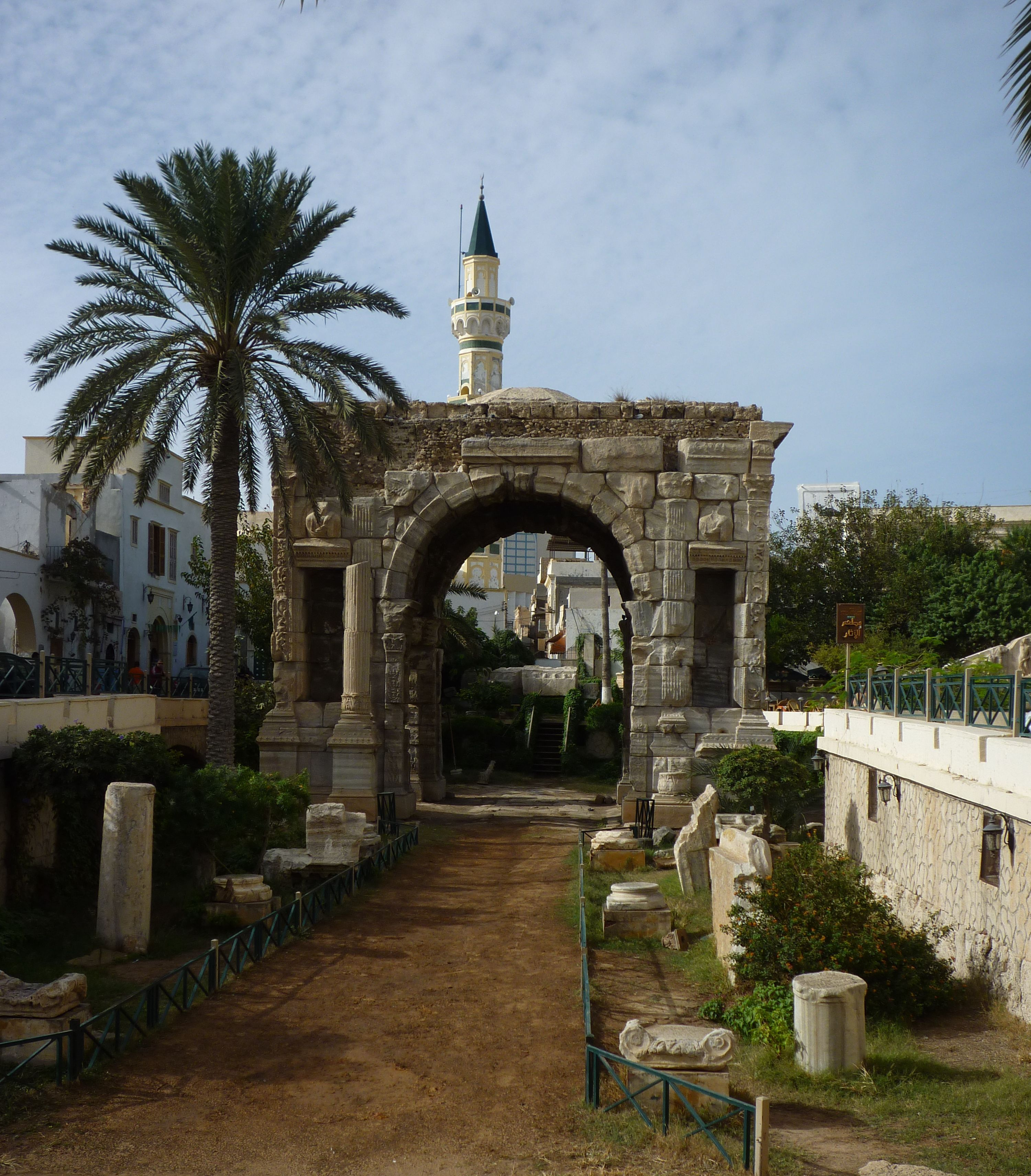 The Arch of Marcus Aurelius in Tripoli, Libya.